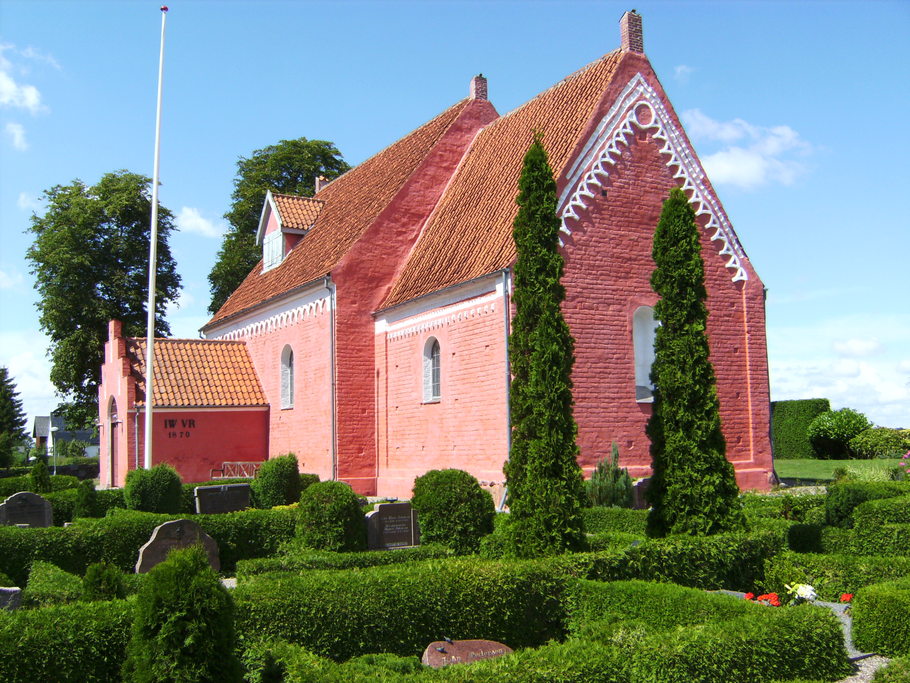 Church of Godstred, Denmark